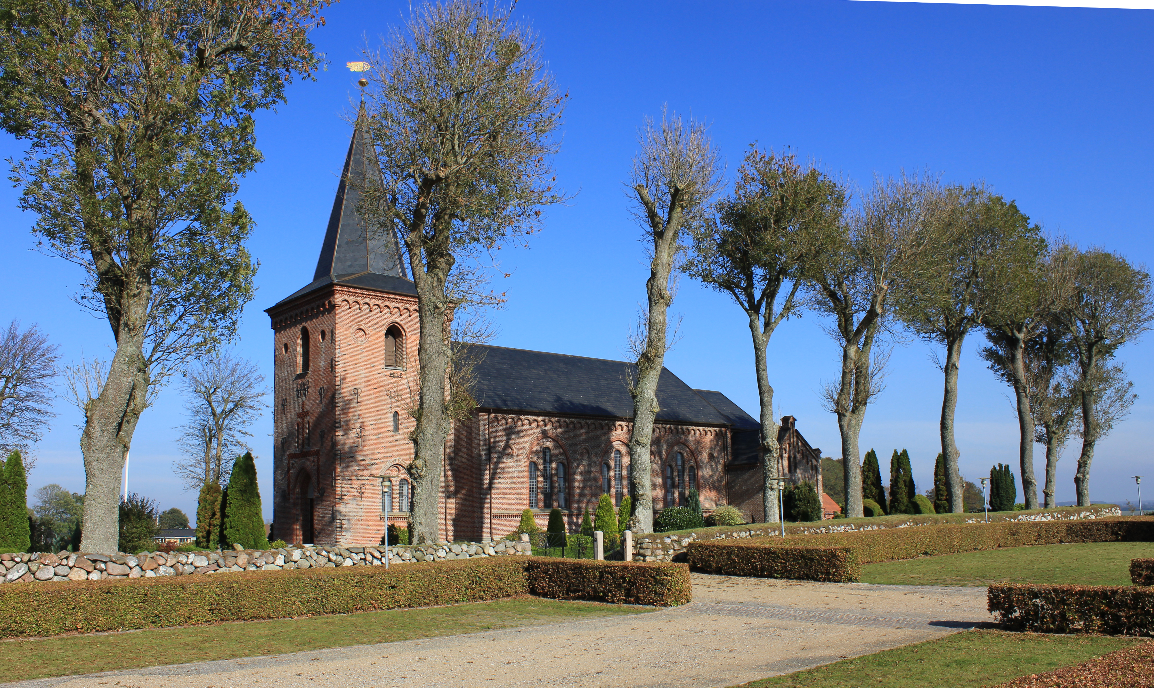 Dalby Kirke church was built by royal constructions LA Winstrup who also converted and newly built other churches in the Kolding 's outskirts. The church is built of red brick on a solid granite base and is listed in mostly Romanesque and Gothic style. On 12 October 1873, the church was consecrated by the Vicar M. Mørk Hansen. The church was refurbished in 1971 and 1998-99.